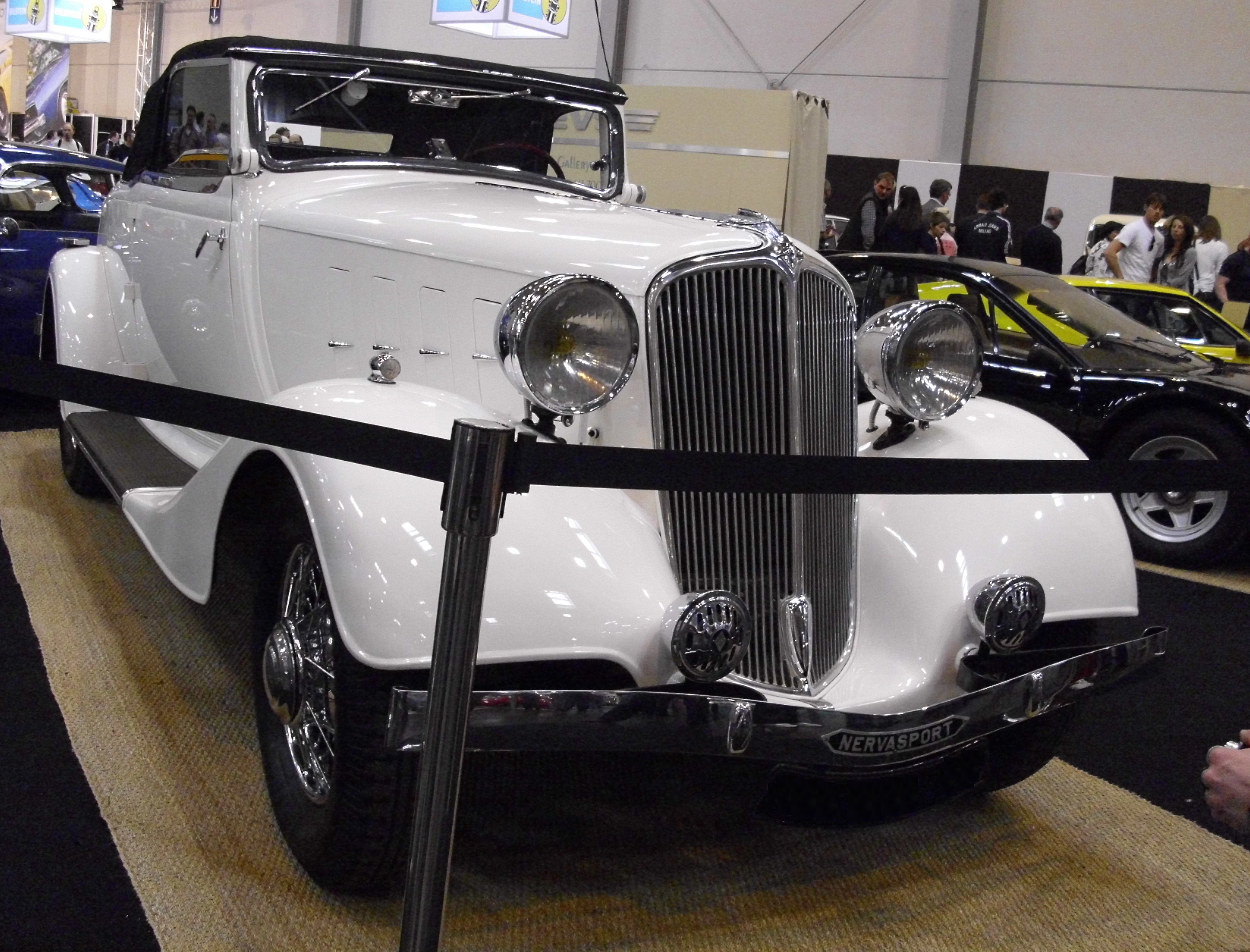 1934 Renault Nervasport Cabriolet ZC2. This car belonged to Jean Rédélé of Alpine fame from 1979 until December 2013 (latterly to his family, as he had passed away) and is the only remaining ZC2 Cabriolet.